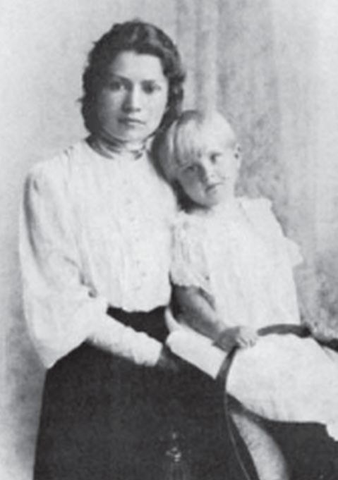 Maria Livytsky with her daughter Natasha